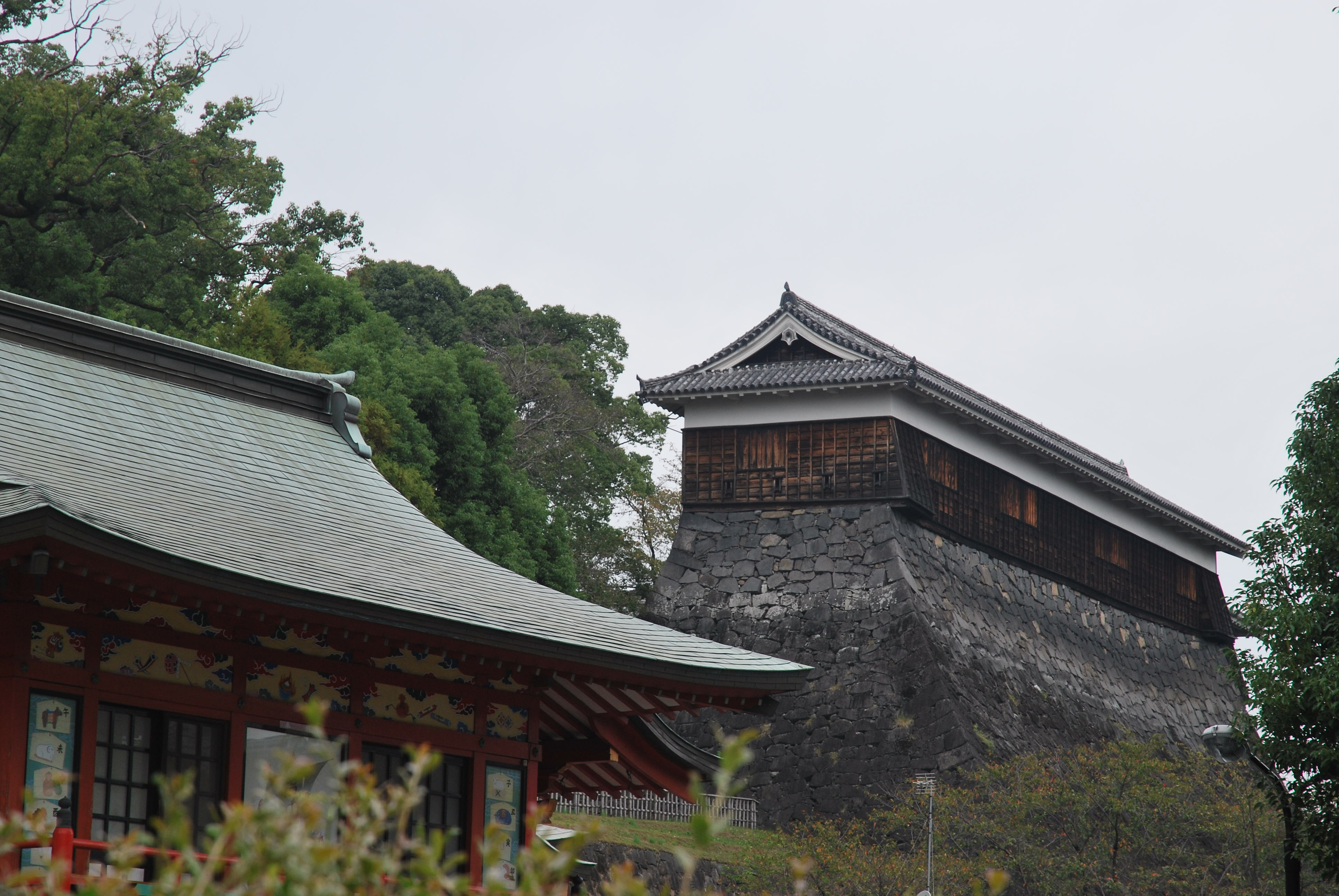 Higashi-Jūhakken-yagura (Japan's national important cultural property), Kumamoto Castle